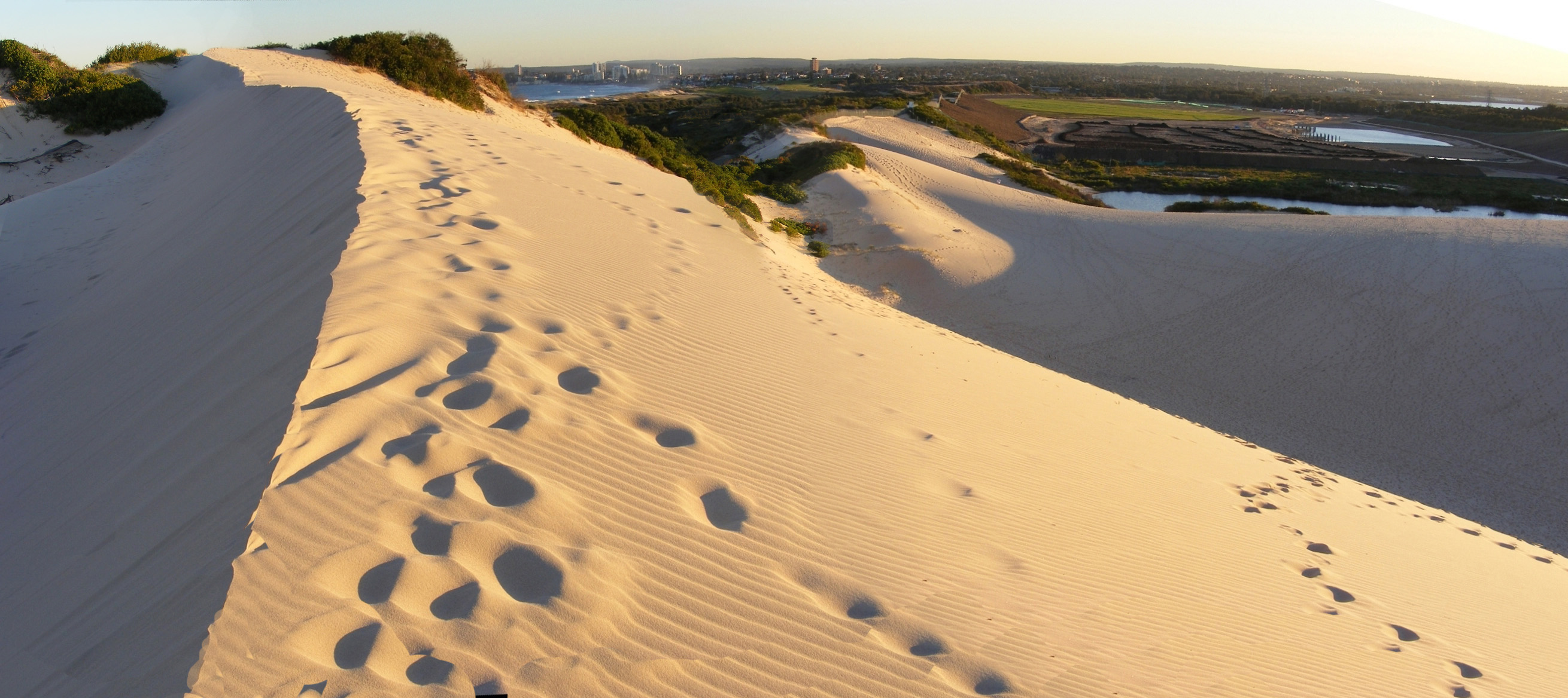 Sand Dunes in the Sutherland Shire, New South Wales, Australia. Two photo stitch